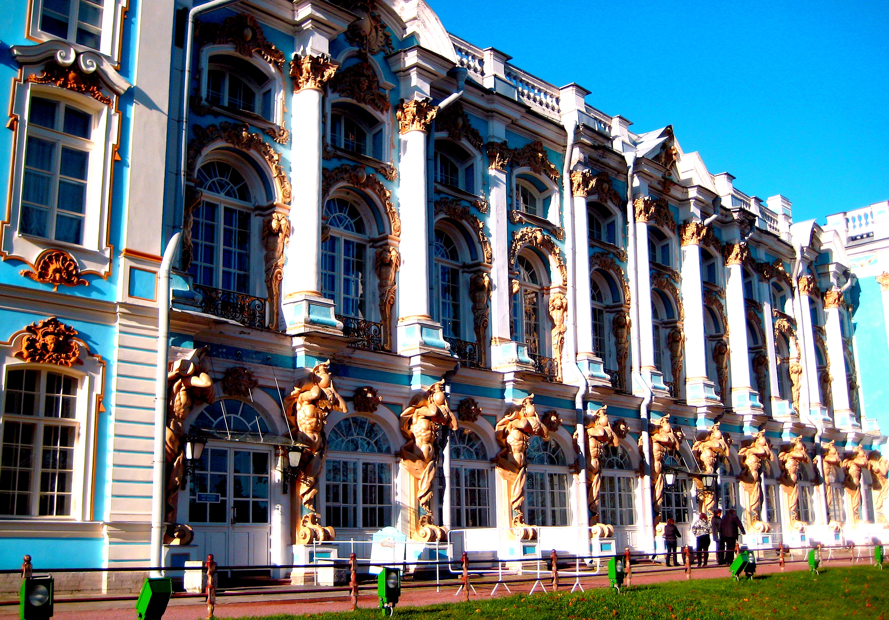 Catherine Palace: Sadovaya street, 7, Pushkin, Pushkin district, St. Petersburg